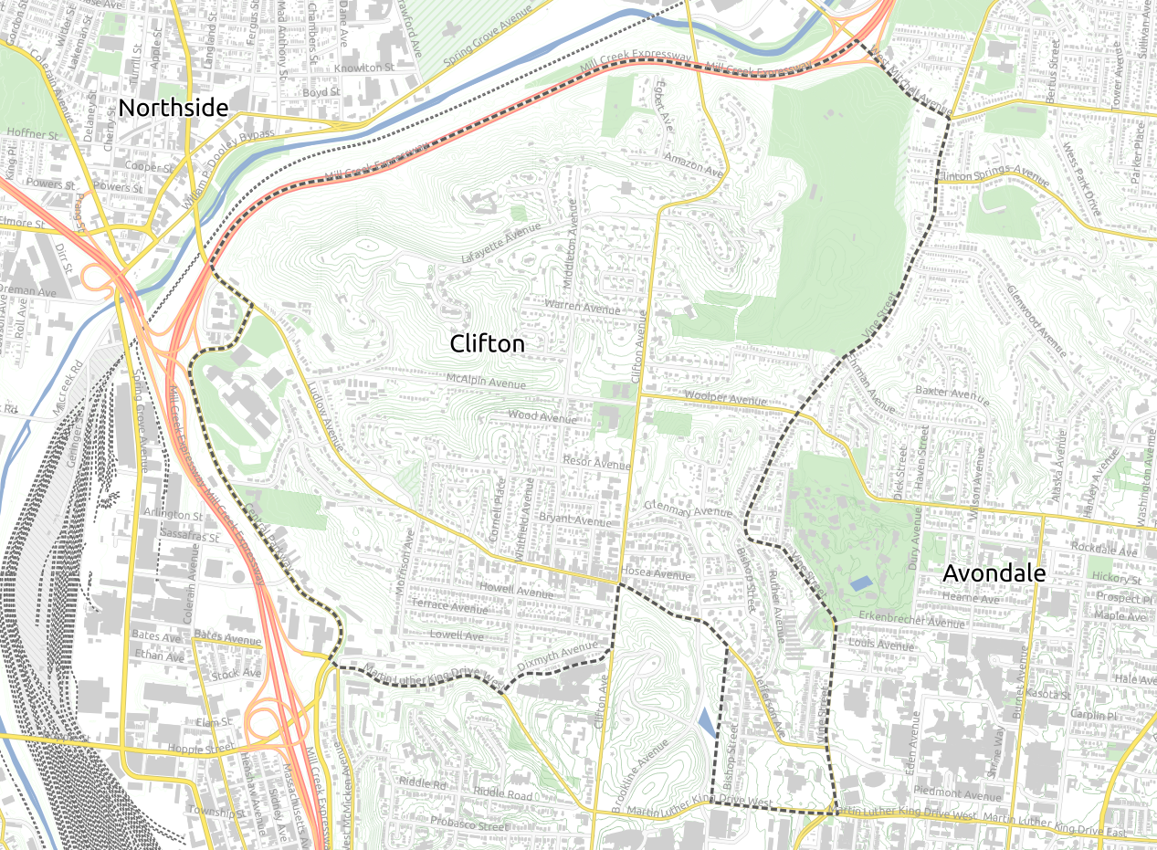 Clifton, Cincinnati This map may be incomplete, and may contain errors. Don't rely solely on it for navigation.